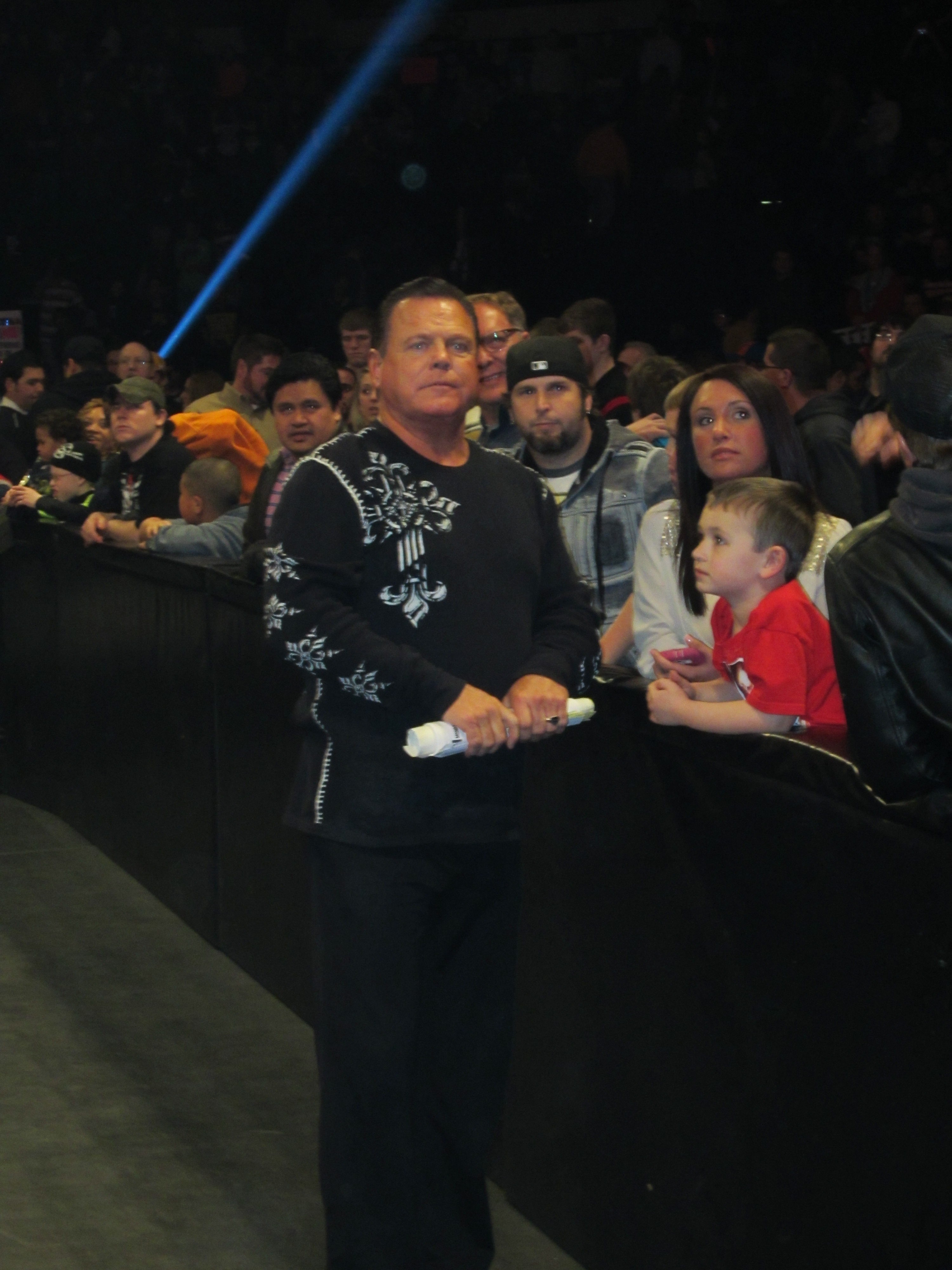 Legend, commentarist, wrestler